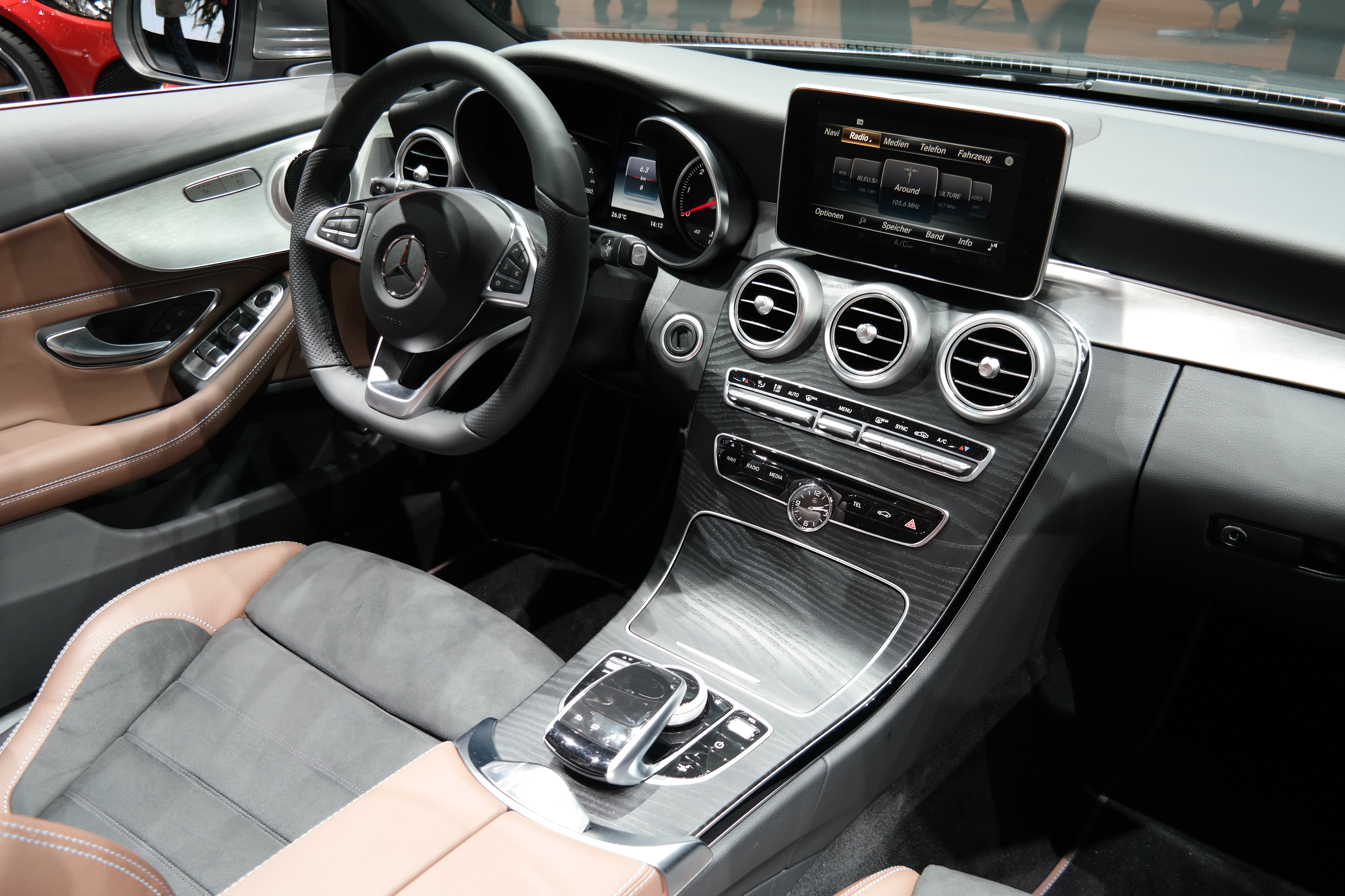 Geneva Motor Show 2016 (photo taken on the first press day)